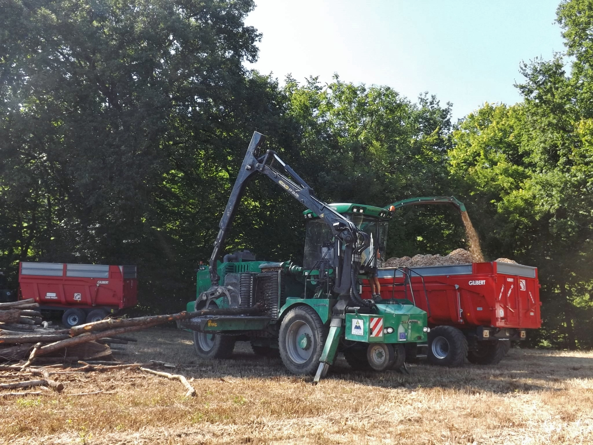 Sight of a active woodchipper exhibition, during the Fête de la Terre agricultural festival, taking place in 2015 at Bissy on the French commune of Chambéry, in Savoie.